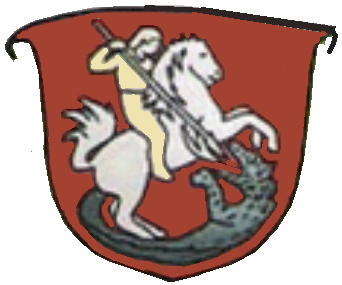 Coat of arms of St. Georgen am Reith, Lower Austria